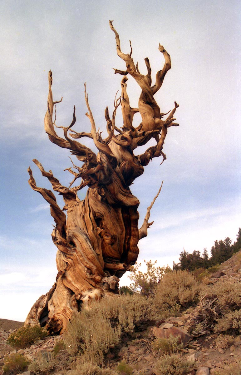 Great Basin Bristlecone Pine Pinus longaeva tree in the White Mountains, Inyo County, eastern California.